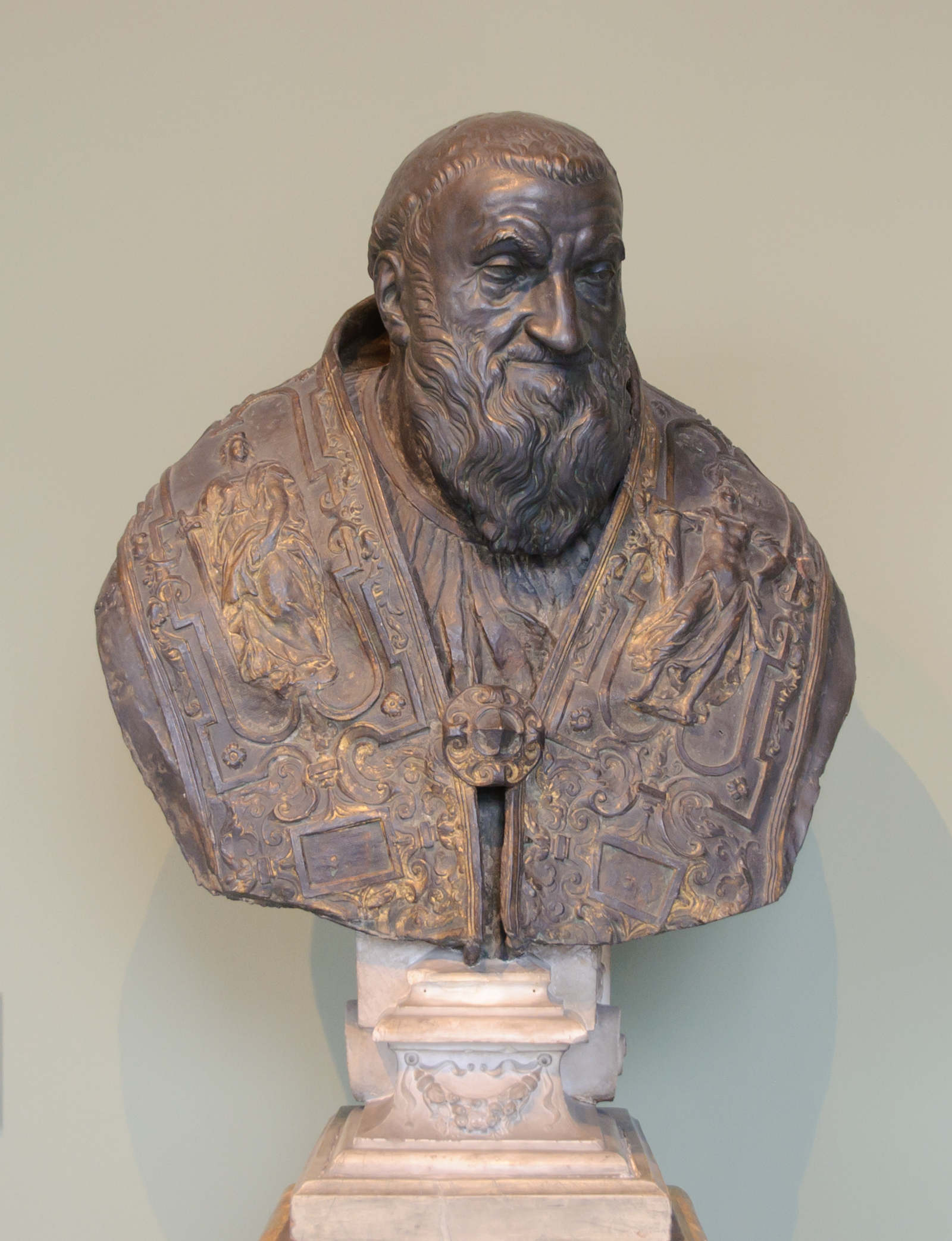 Bust of Pope Sixtus V